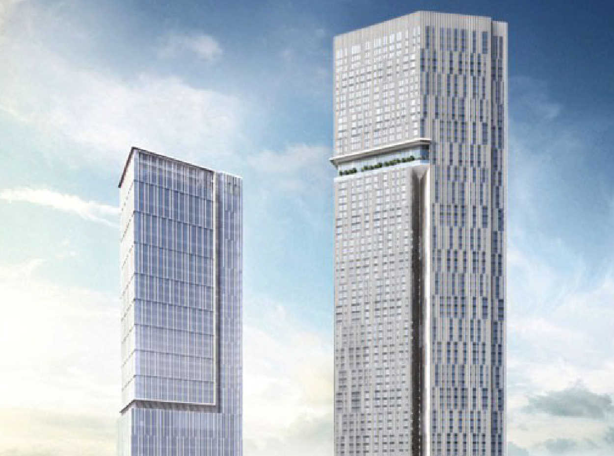 Three Sixty West is a mixed-use development located in Worli, Mumbai and comprises two towers. One will house The Ritz-Carlton Hotel and the other will have luxury residences managed by The Ritz-Carlton. The development is a true marvel of design; the towers are carefully angled so that each home benefits from stunning sea views while impeccable planning ensures that Residents enjoy utmost discretion and privacy.